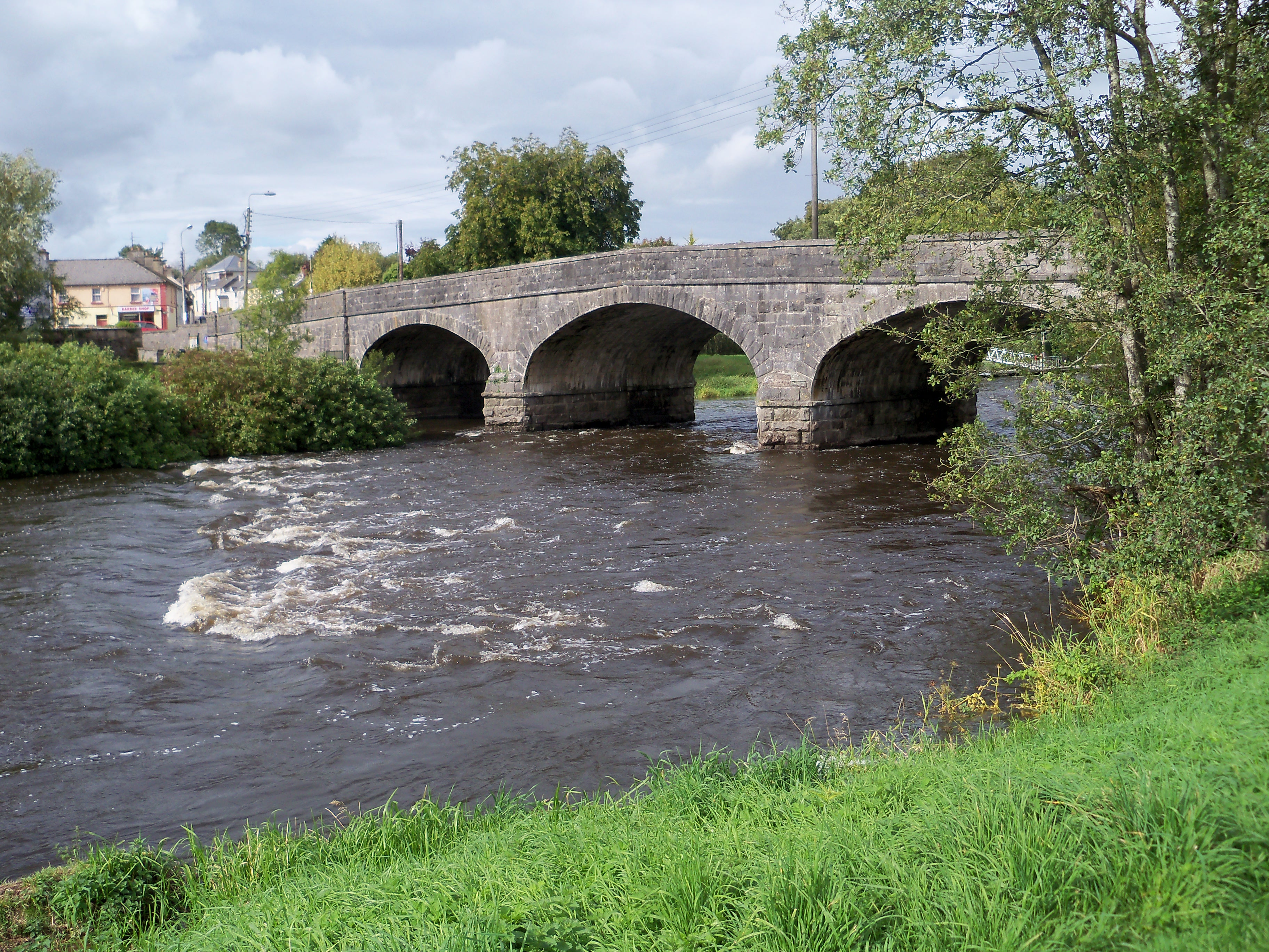 River Erne at Belturbet, County Cavan